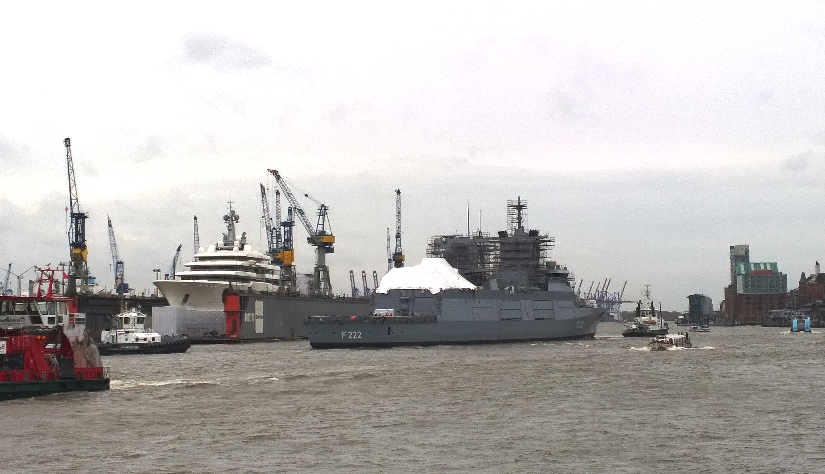 The frigate F222 Baden-Württemberg is towed by two tugs of the company Lütgen & Reimers over the stern in port of Hamburg